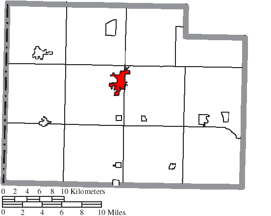 Map of the municipal and township boundaries of Paulding County, Ohio, United States, as of the 2000 census, with the location of the village of Paulding highlighted. Township borders are shown only in unincorporated areas in order to differentiate incorporated and unincorporated areas more clearly.